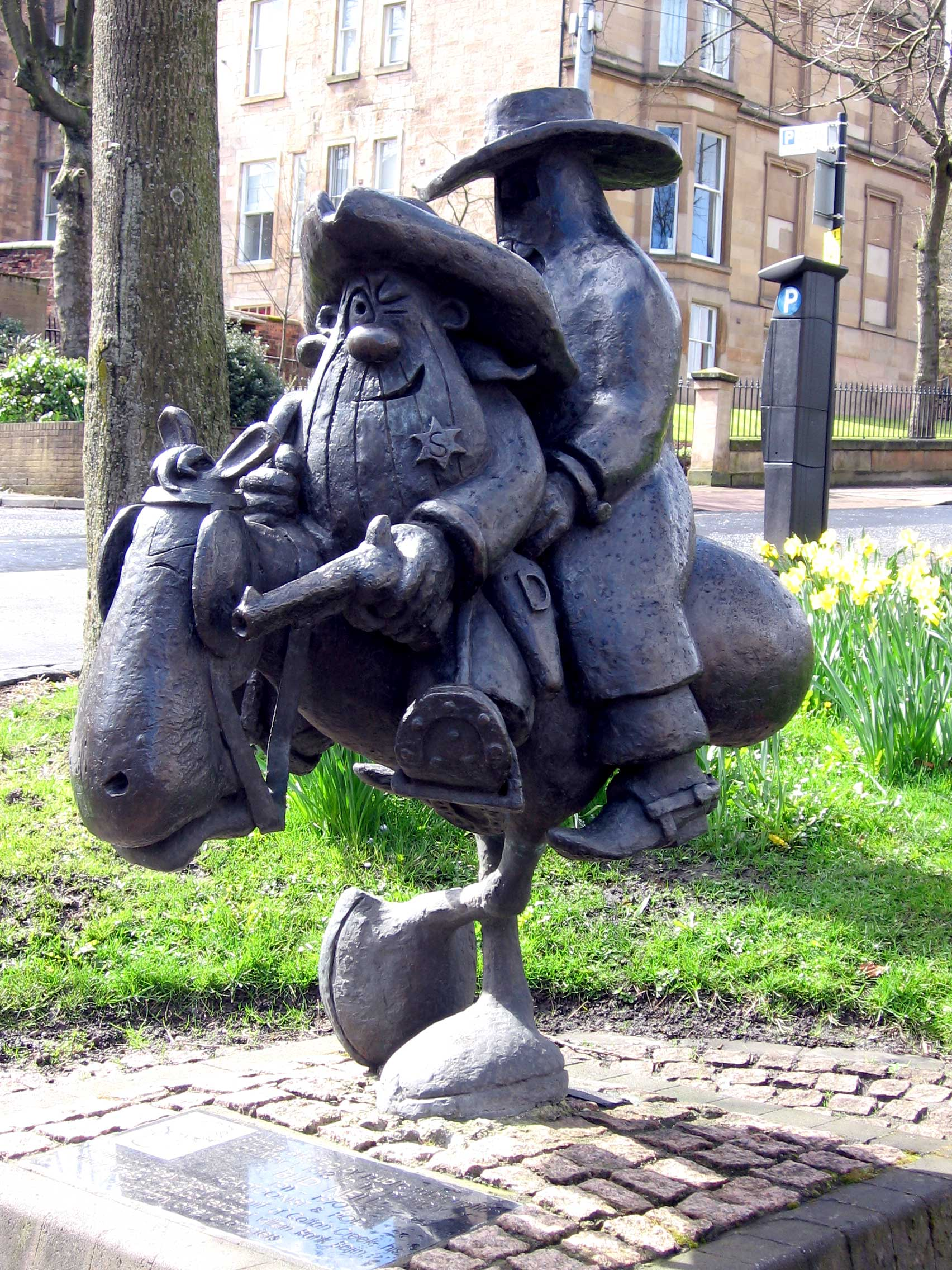 Equestrian statue in honour of Bud Neill at Woodlands Road, Glasgow; featuring Sheriff Lobey Dosser along with his arch enemy Rank Bajin, astride Lobey's faithful steed El Fidelio (Elfie), the only two legged horse in The West. photograph taken on 17 April 2006 by User:Dave souza. Any re-use to contain this licence notice and to attribute the work to User:Dave souza at Wikipedia.